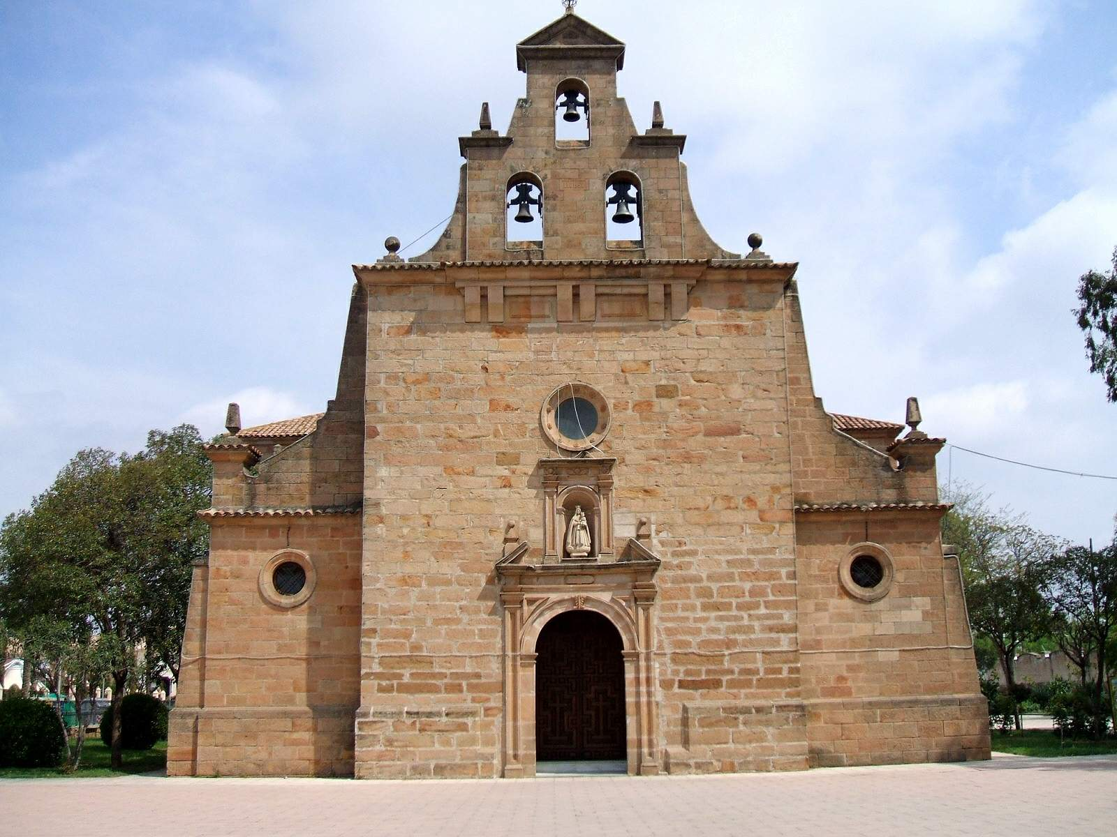 Santuario de Nuestra Señora de Linarejos, en Linares (Jaén, Andalucía, España)